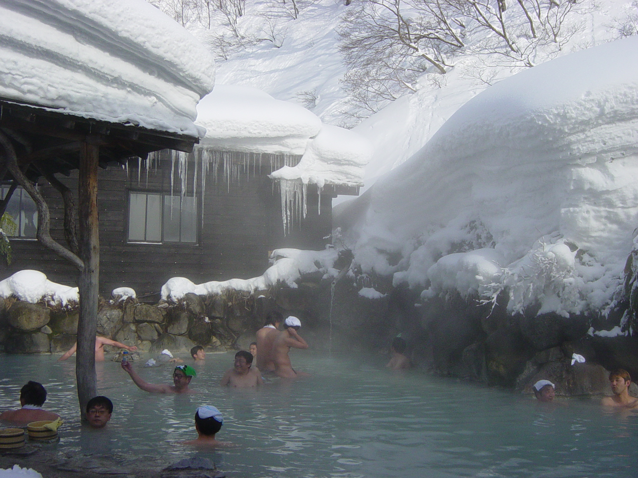 The Tsurunoyu Onsen outdoor bath (rotenburo) in winter.